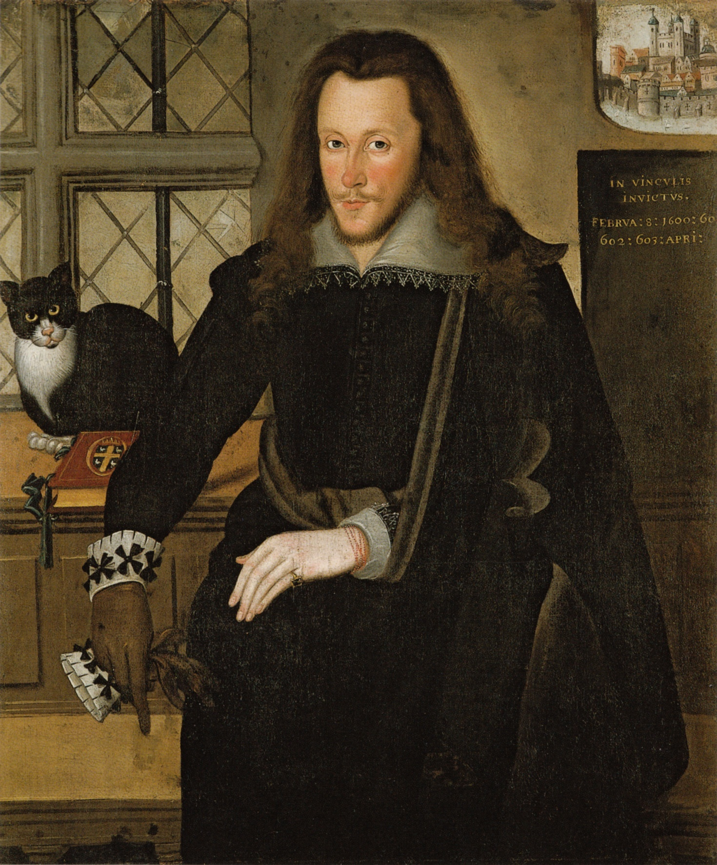 Portrait of Henry Wriothesley, 3rd Earl of Southampton (1573-1603). A small painting of the Tower of London is shown in the top-right background, above the Latin words: In vinculis invictus ("in chains unconquered") Februa 8 1600; 601; 602; 603 Apri. The arms of Wriothesley (Azure, a cross or between four hawks close argent) are shown on the cover of a book lying on the windowsill before the cat